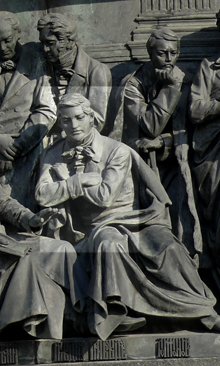 Aleksandr Griboyedov on the Monument «Millennium of Russia» in Veliky Novgorod